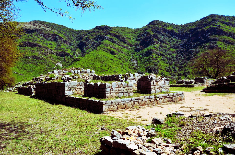 Bhamala Stupa, Pakistan